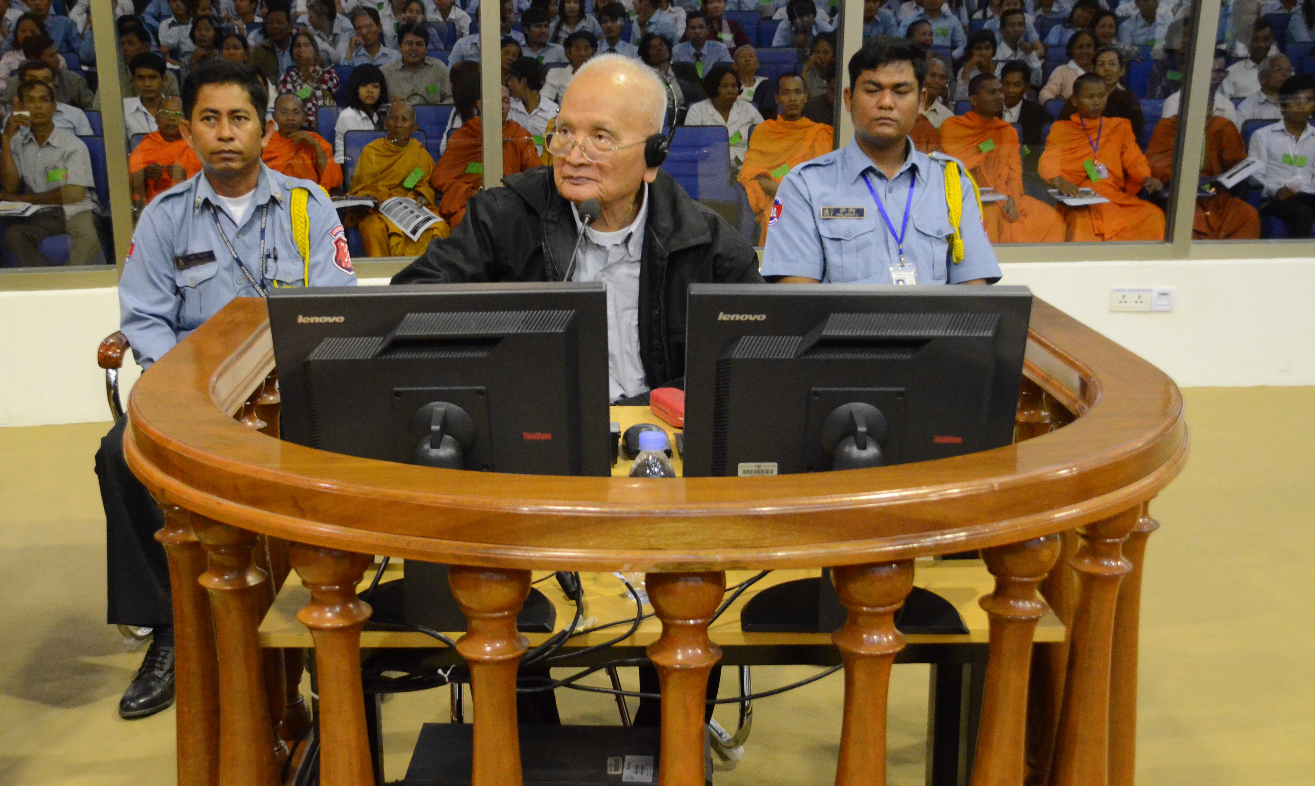 5 Dec 2011:Nuon Chea during the Trial Chamber hearing in Case 002. For The photo can be used freely for editorial use, provided the following photo credit is being acknowledged: Photo:ECCC Handout/Nhet Sok Heng ... ភាសាខ្មែរ: ថ្ងៃទី៥ ខែធ្នូ ២០១១៖ នួន ជា នៅក្នុង​សវនាការ​លើ​​សំណុំរឿង ០០២ នៅ​ចំពោះមុខ​អង្គជំនុំជម្រះ​សាលាដំបូង។ សម្រាប់ព័ត៌មានបន្ថែម សូមមើលៈ រូបថតនេះអាចប្រើប្រាស់បានដោយបញ្ជាក់ប្រភពៈ អ.វ.ត.ក/ញ៉ែត សុខហេង